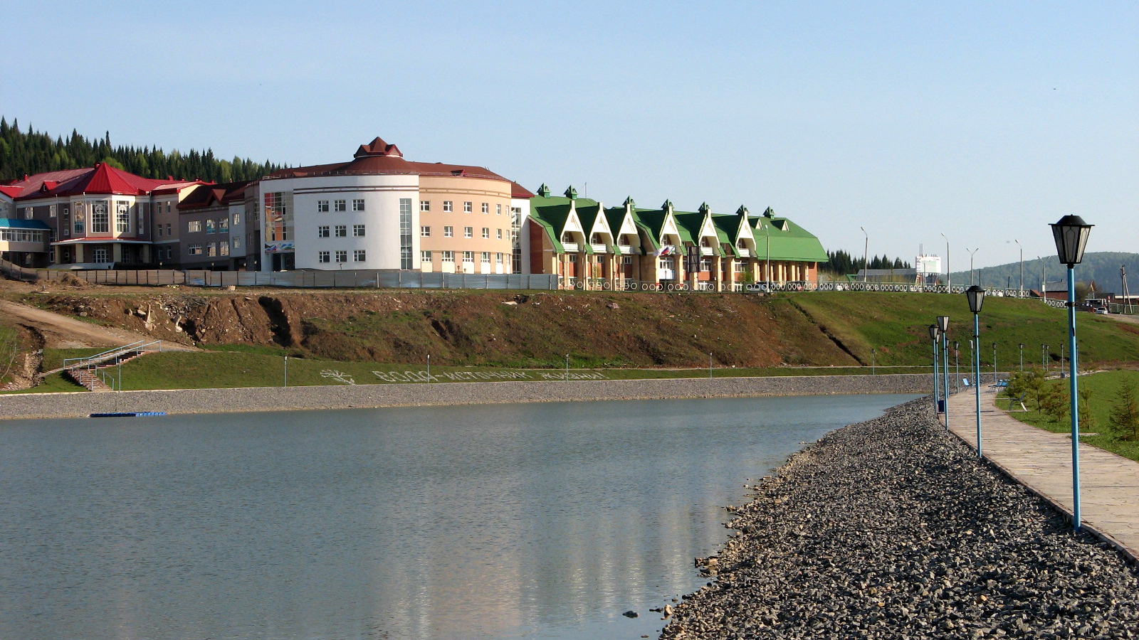 Assy